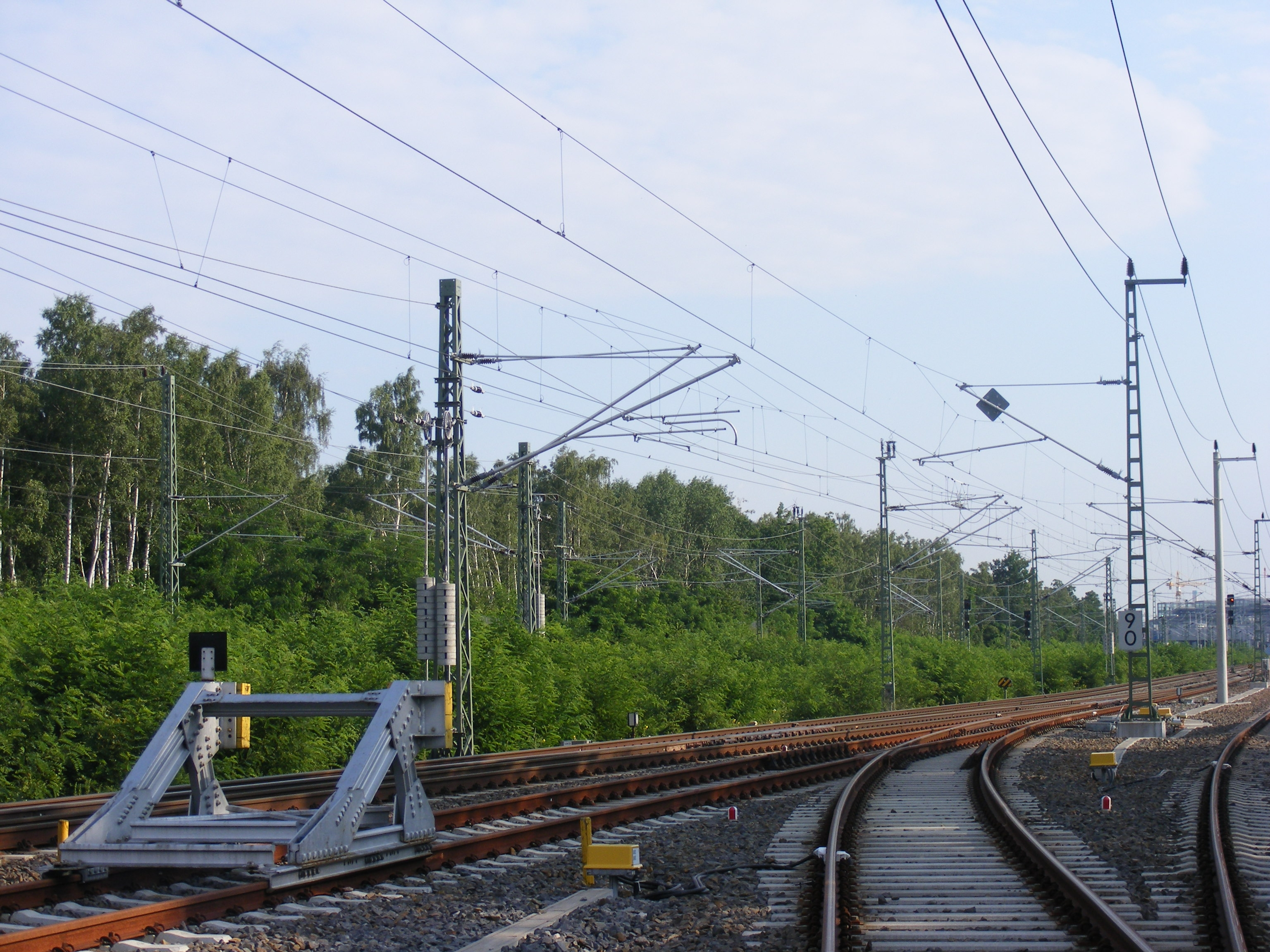 Nord-Süd-Fernbahn Berlin, end of line and begin of new Anhalter Bahn at Berlin Suedkreuz Suedende